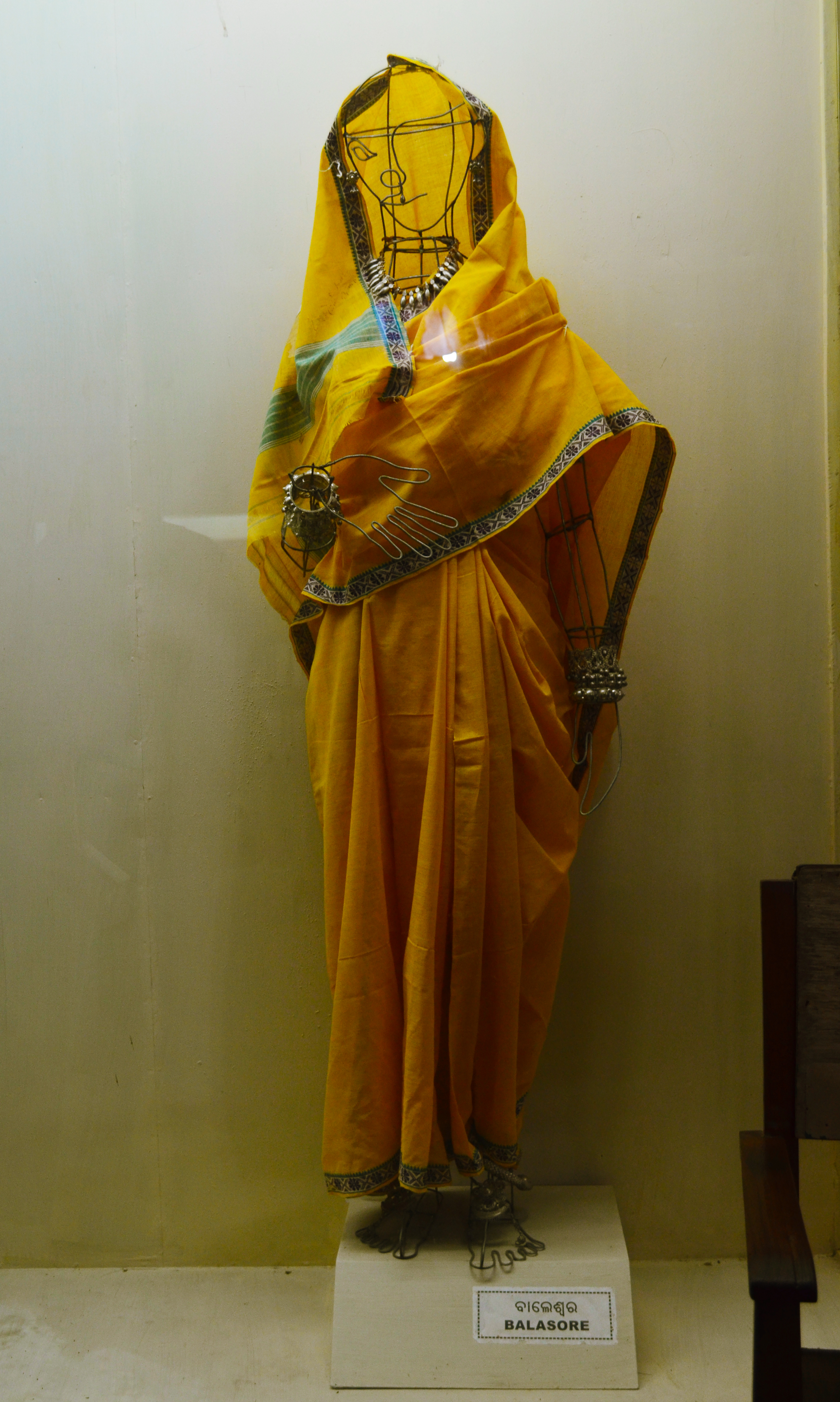 Sari draping style of Balasore (Baleswar) region, Odisha state museum, Bhubaneswar 2013